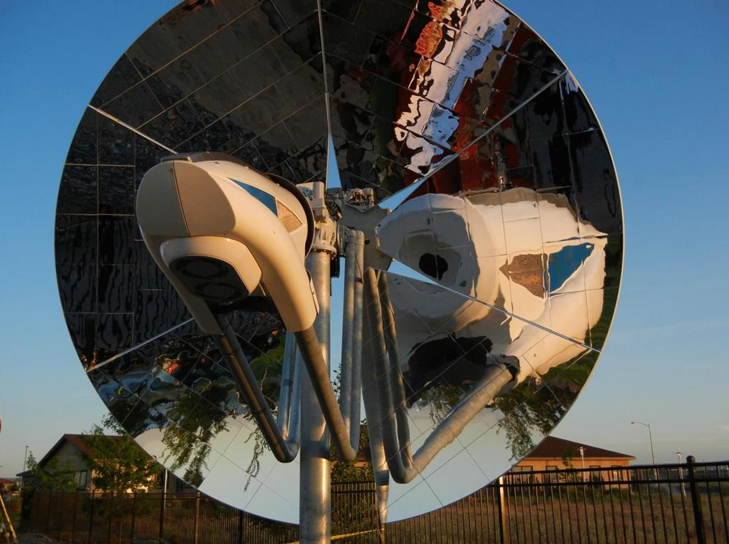 Concentrated solar panels are getting a power boost. This summer, Pacific Northwest National Laboratory (PNNL) will be testing a new concentrated solar power system -- one that can help natural gas power plants reduce their fuel usage by up to 20 percent. PNNL has developed a system that uses a thermochemical conversion device to convert natural gas and sunlight into a more energy-rich fuel called syngas. By installing the pictured device in front of a concentrating solar power dish, power plants can burn less fuel. Photo courtesy of Pacific Northwest National Laboratory.